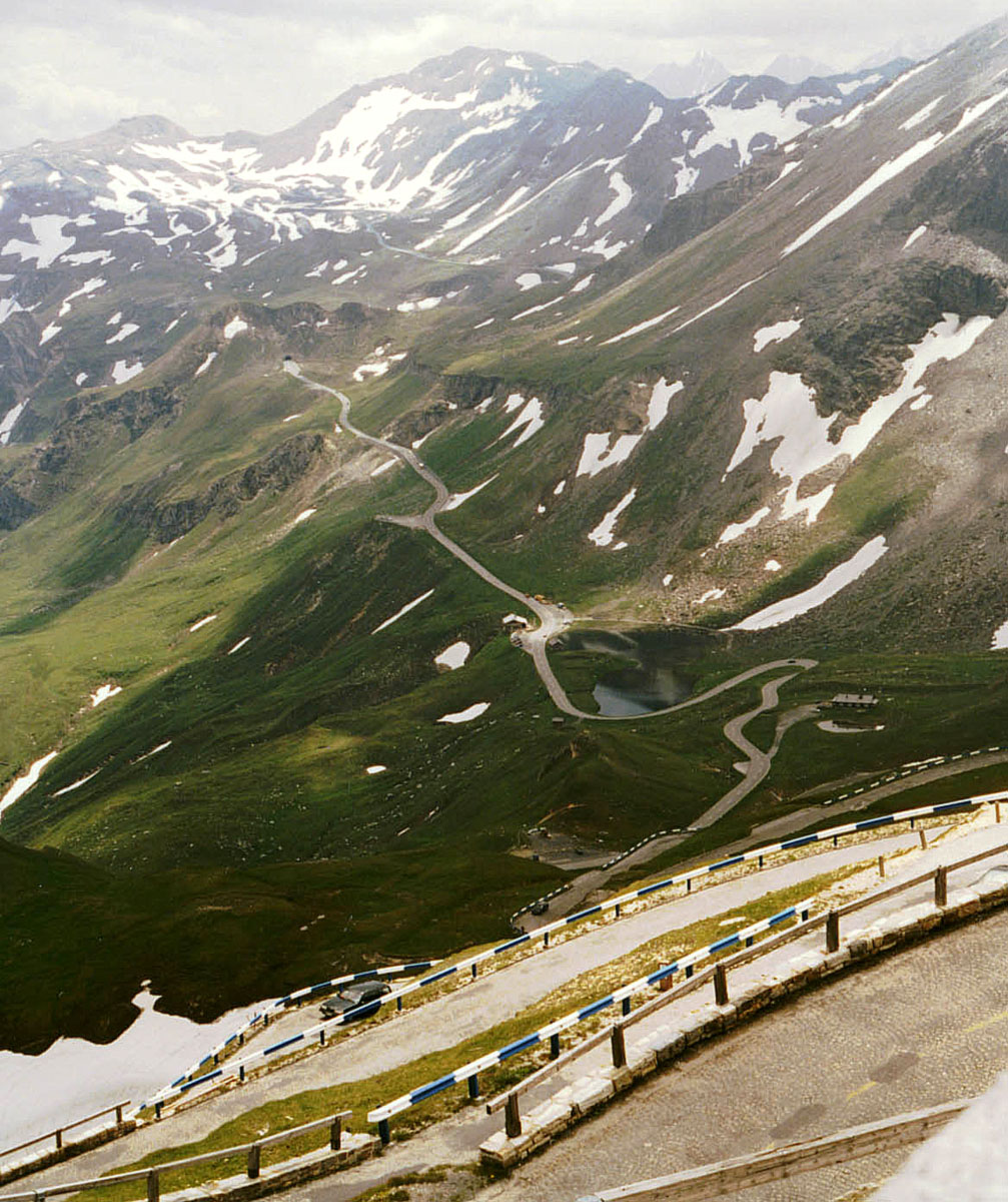 View from the Edelweissspitze to the Hochtor at the Grossglockner Hochalpenstrasse